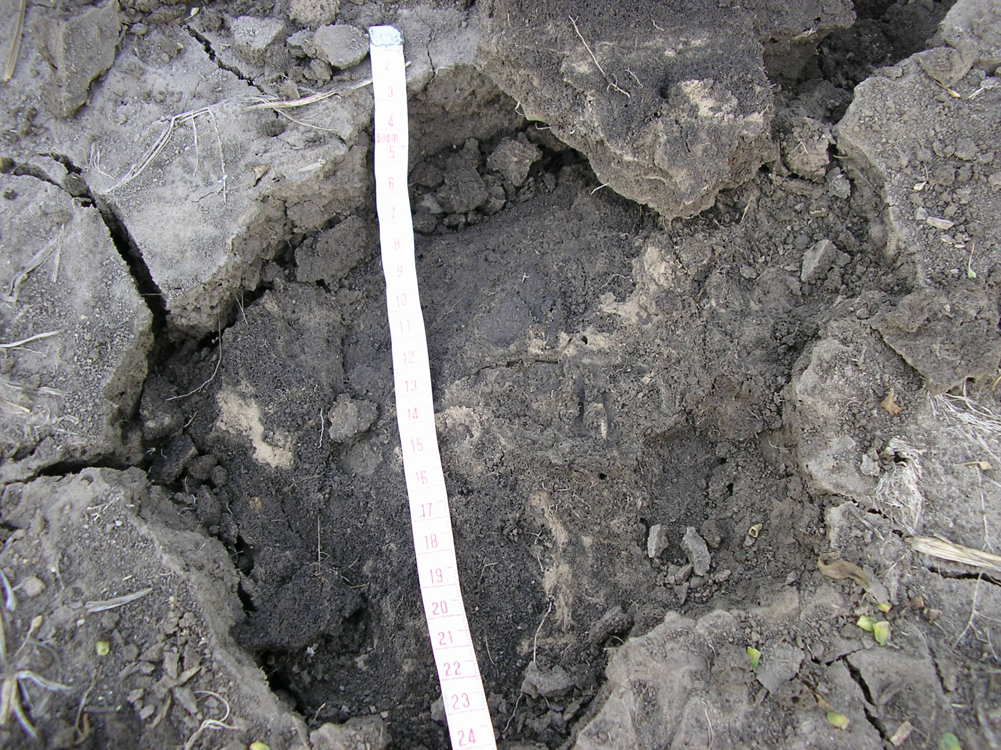 Morphological characteristics of secondary sodifications soils. Consequences of use of weakly saline water for irrigation of chernozems